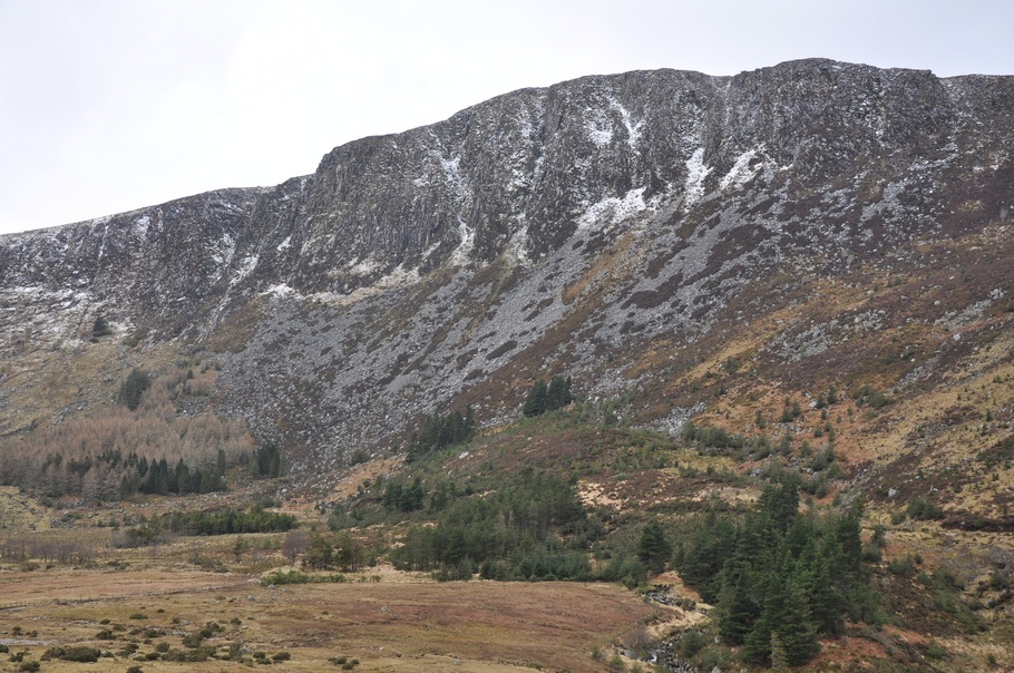 South-facing cliffs of Benleagh, viewed from the Fraughan Rock Glen, Wicklow, Ireland